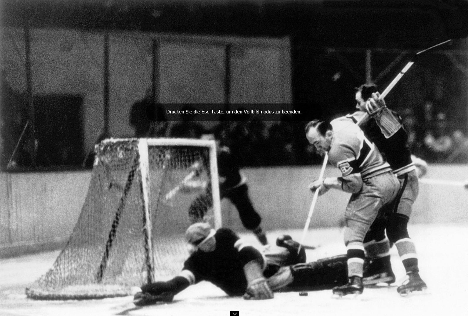 Howie Morenz in a game vs. the New York Rangers